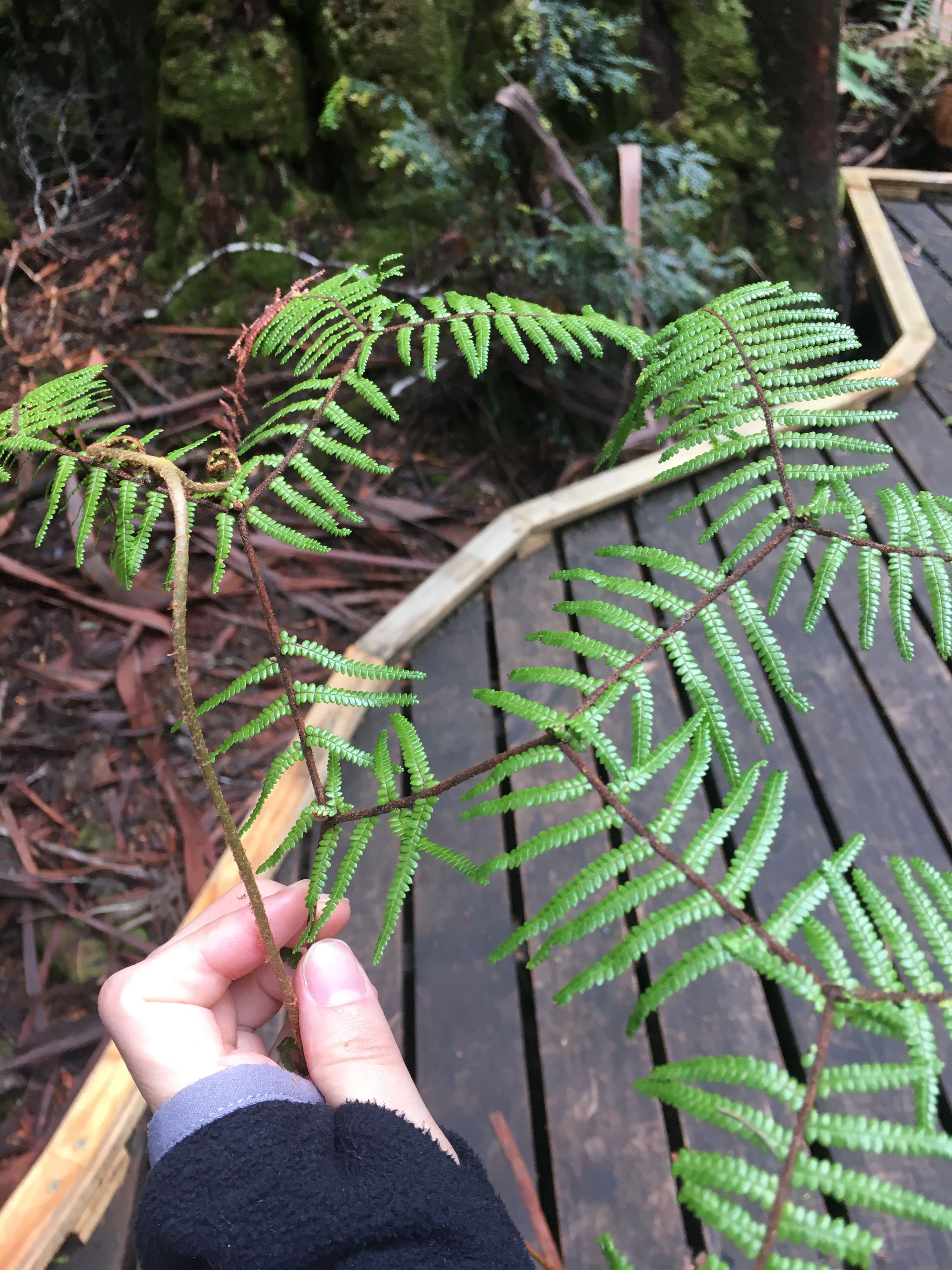 Gleichenia microphylla at Tasmania. The fronds forked several times.